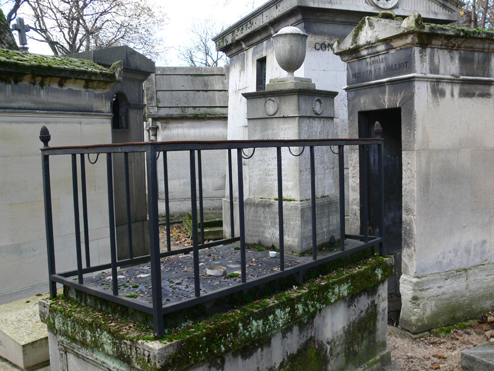 pere lachaise cemetery in the 20th arrondissement division 8